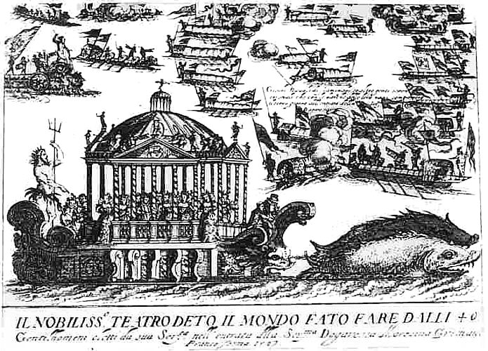 Detail from Il nobilissimo teatro deto il mondo (1610) by Giacomo Franco showing a Teatro del Mondo (Theatre of the World), a theatre mounted on a barge common in Venice in the 18th century.